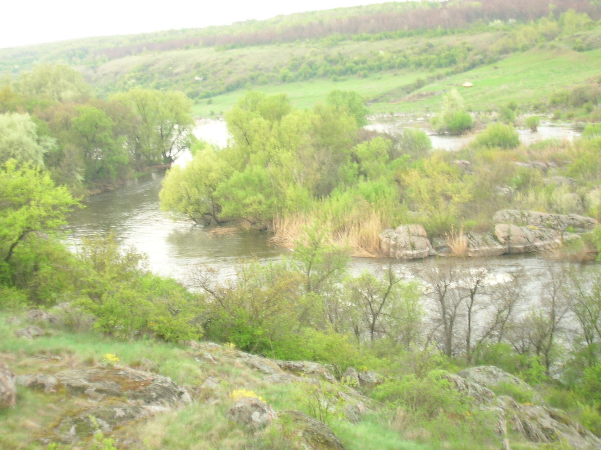 Southern Buh river — in vicinity of the Granite-steppe lands of Buh Landscape Park. Located in the southern Ukraine.